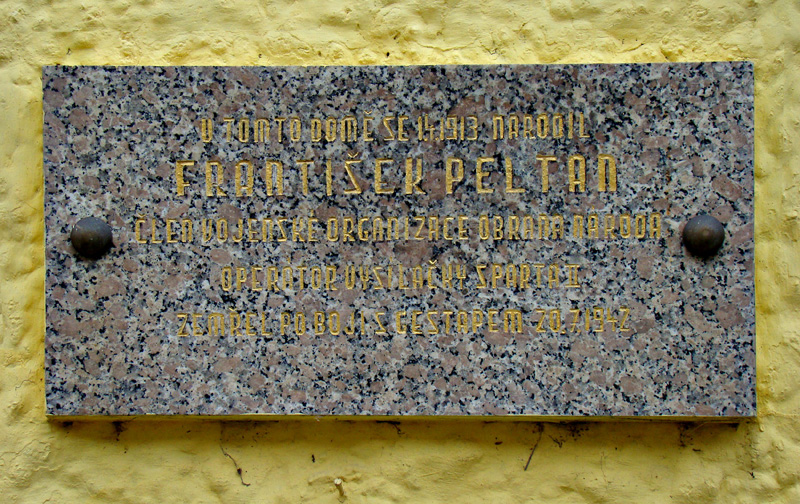 New commemorative plaque dedicated to František Peltán (* 1913 - † 1942). He was the resistance fighter, radio operator and a member of an illegal group Three Kings. The plaque is fixed on the wall of the birthplace (house) in Czech town Jindřichův Hradec in the street "9. května 223/II".